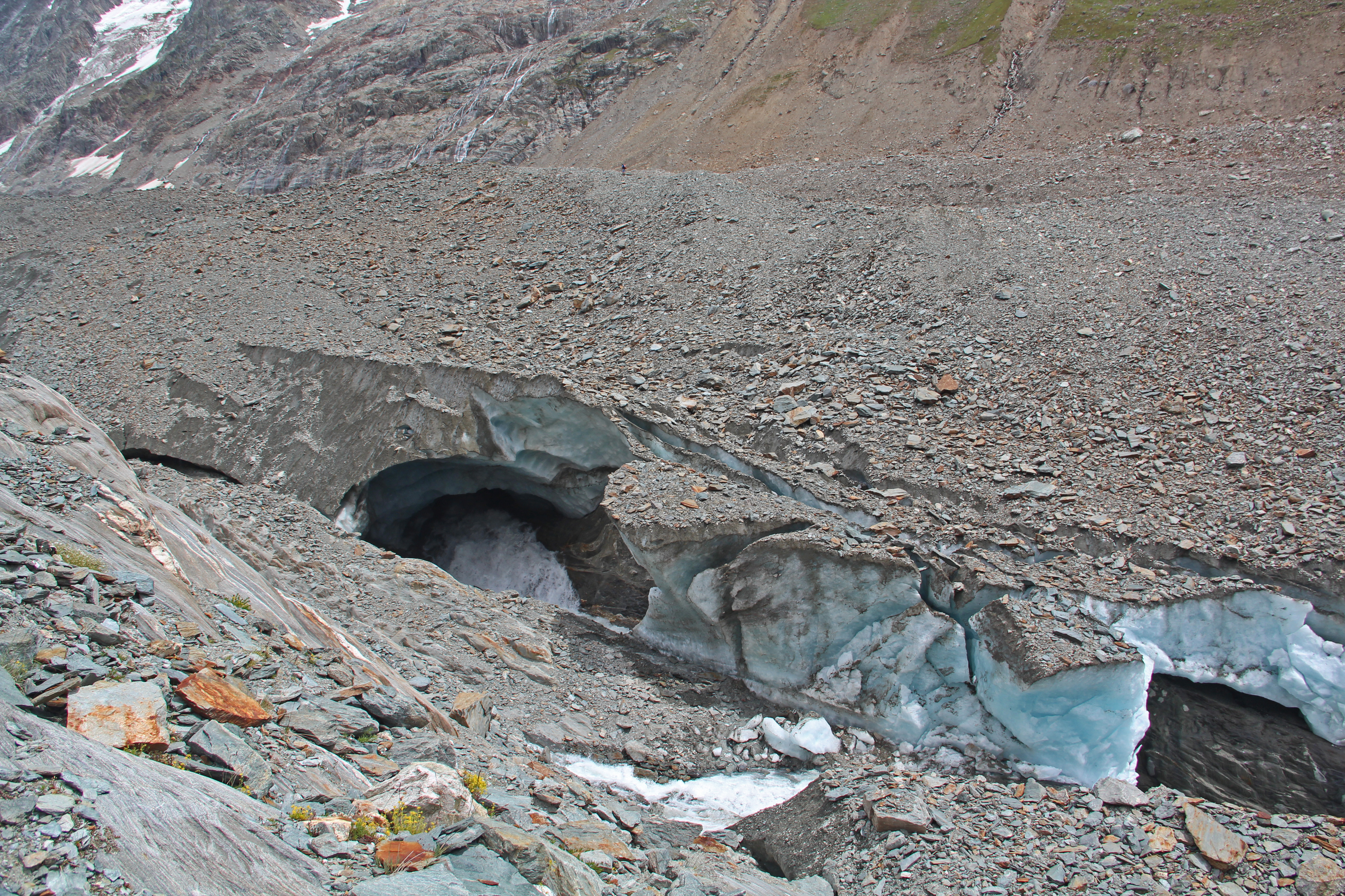 Mouth of the Anun Glacier in Lötschen Valley (Lötschental), Valais, Switzerland, in July 2014